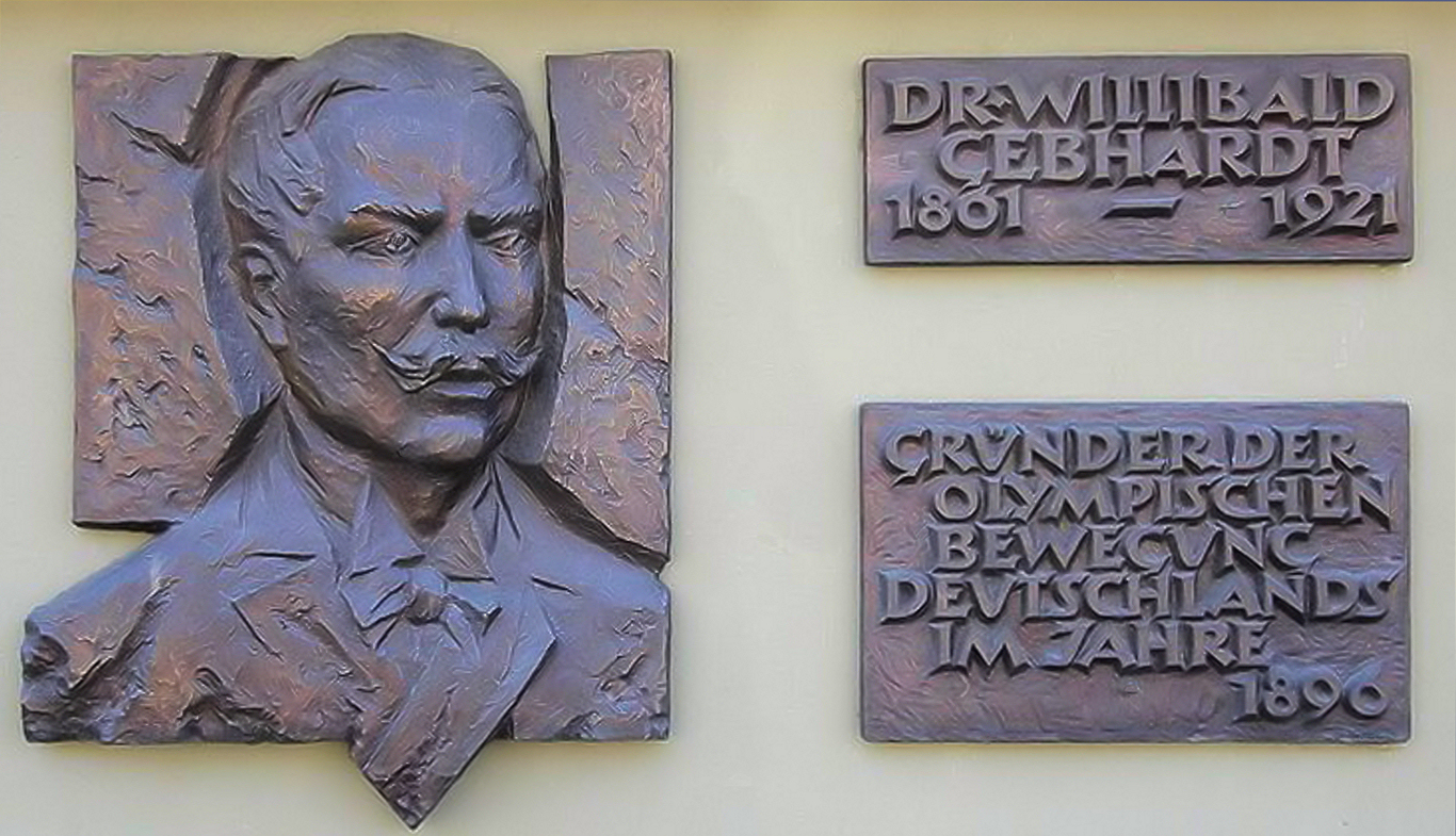 Memorial plaque, Willibald Gebhardt, Sachsendamm 12, Berlin-Schöneberg, Germany